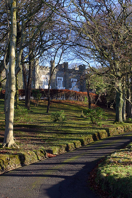 Greeba Castle. Not really a castle, but one of a pair of castellated houses built in 1849 and designed by John Robinson of Douglas. From 1896 to 1931, the residence of famous Manxman Thomas Henry Hall Caine (1853-1931).